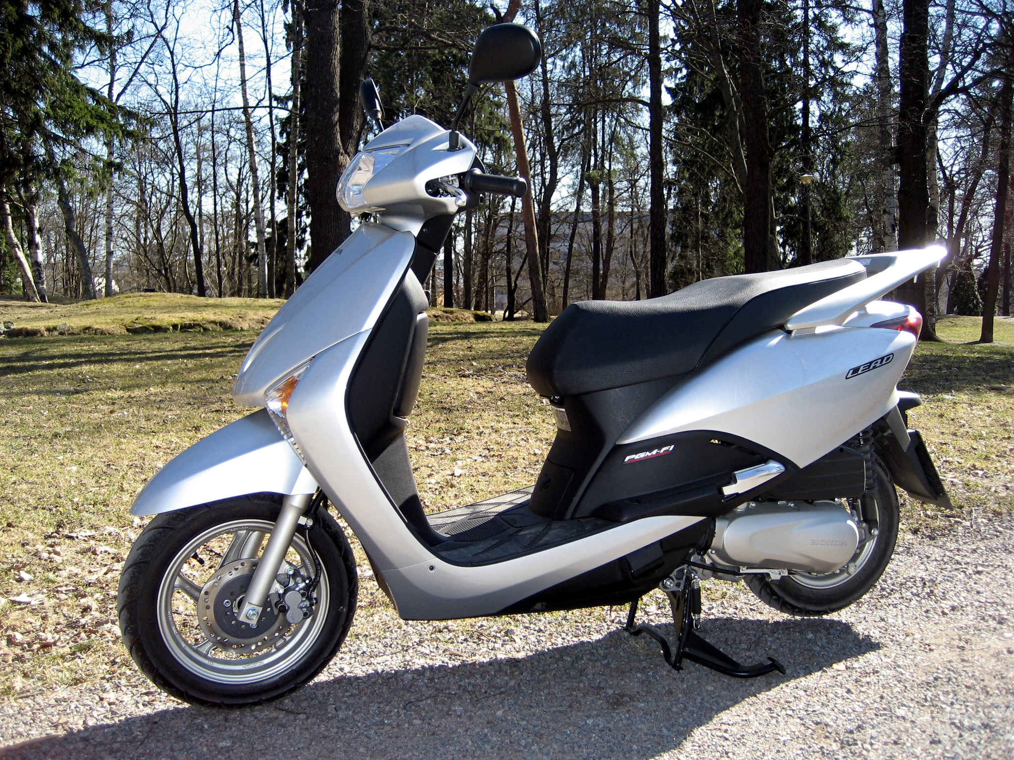 Honda's entry level motor scooter SCV 110 Lead, manufactured February 2008 in China. Four stroke single cylinder 108 cc, liquid cooled, automatic transmission with fuel injection.